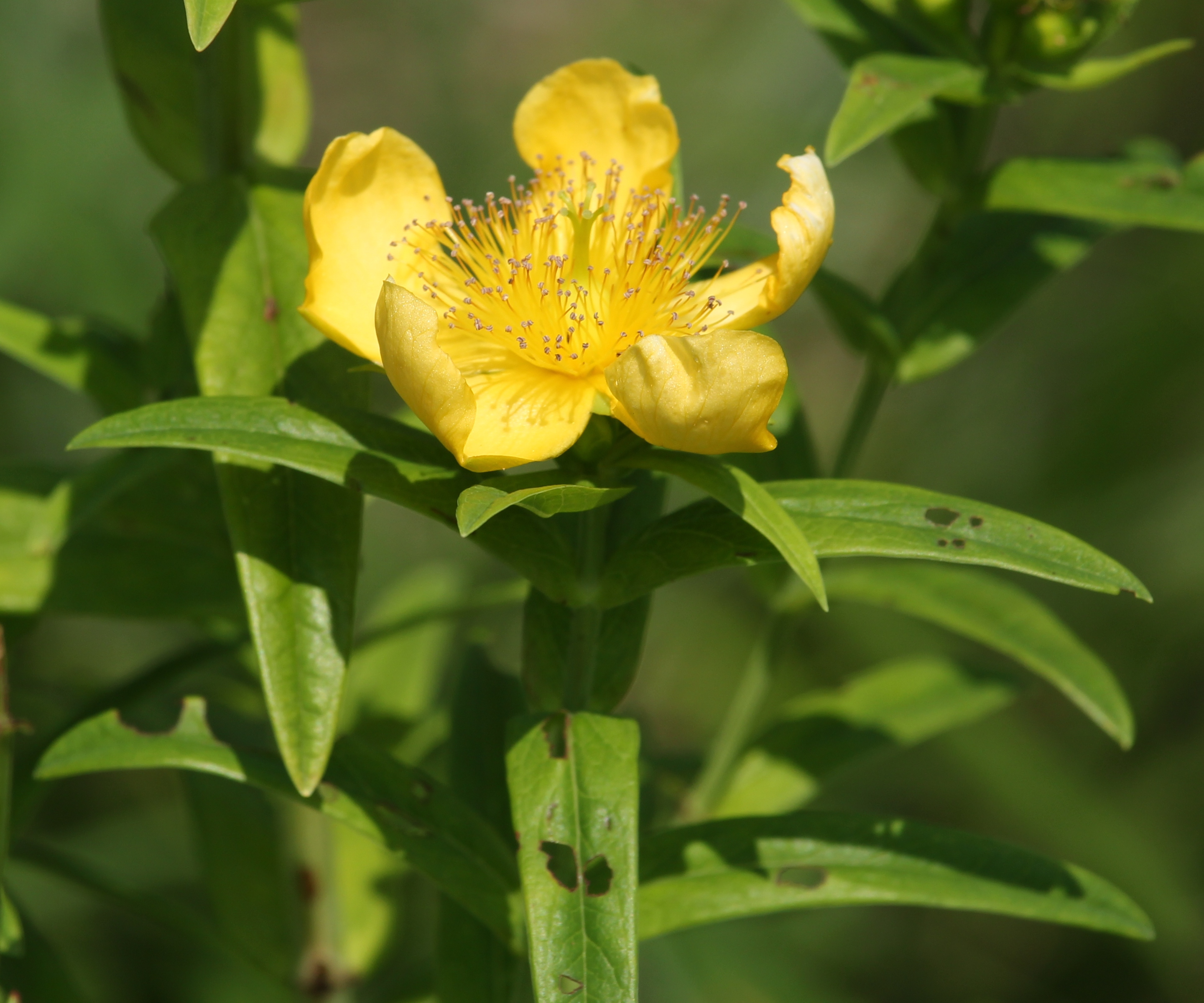 Hypericum ascyron L. subsp. ascyron var. ascyron, in Mount Ibuki, Maibara, Shiga prefecture, Japan.